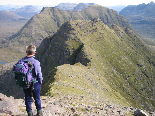 The Horns of Alligin. An easy scramble in summer, the traverse of the Horns is the classic route to the summit of Beinn Alligin (behind the camera)